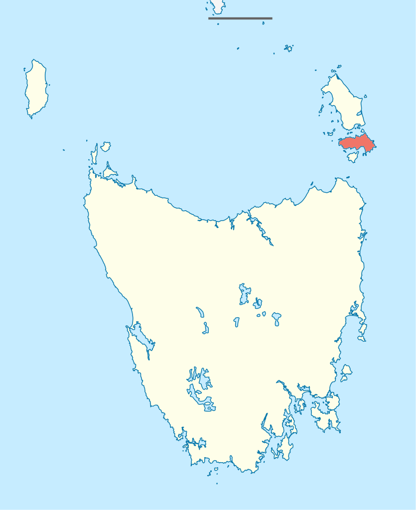 Part of a series of locator maps for Islands of Tasmania Based on File:Australia_Tasmania_location_map_blank.svg